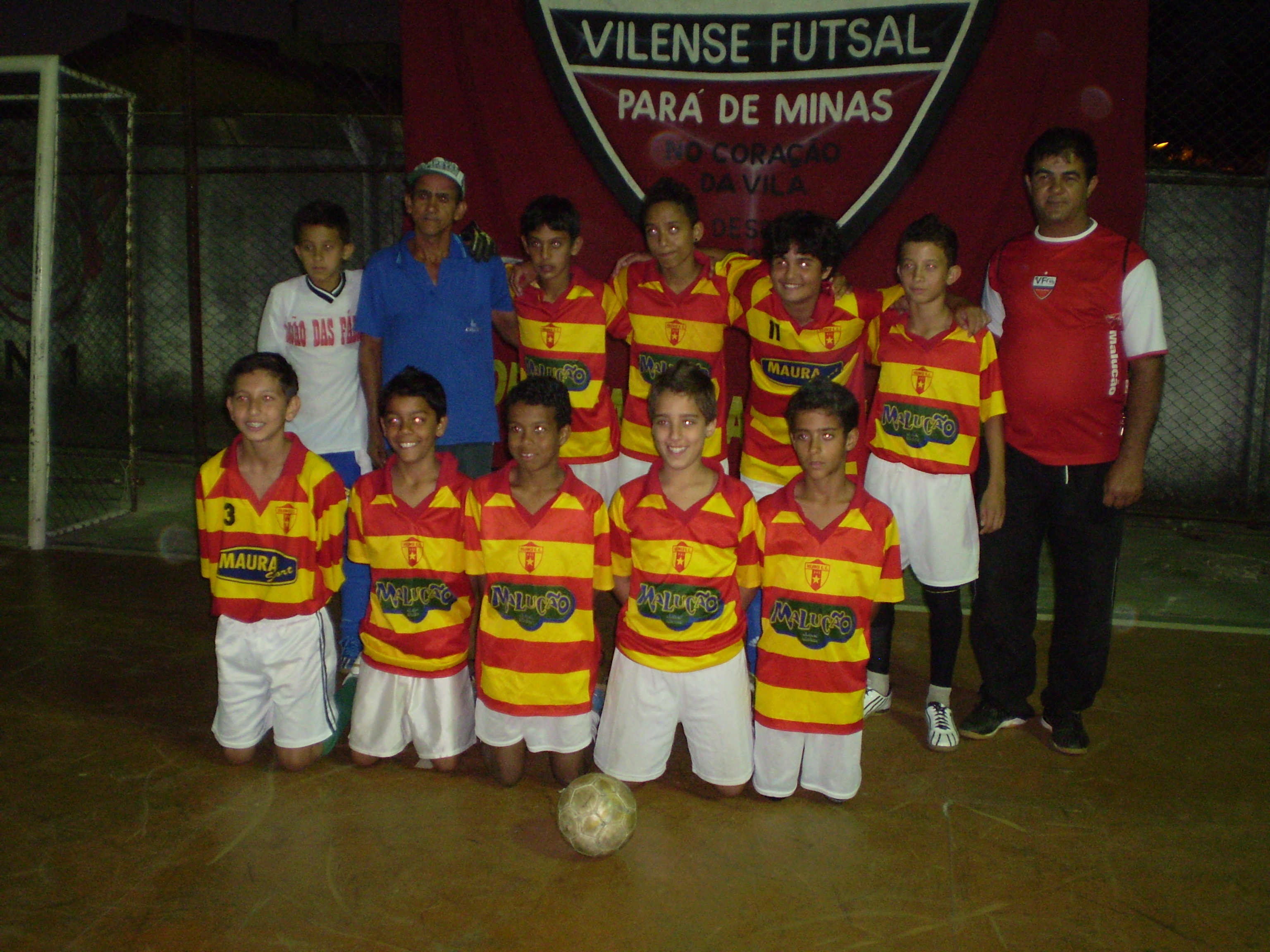 Vilense in the basic categories.